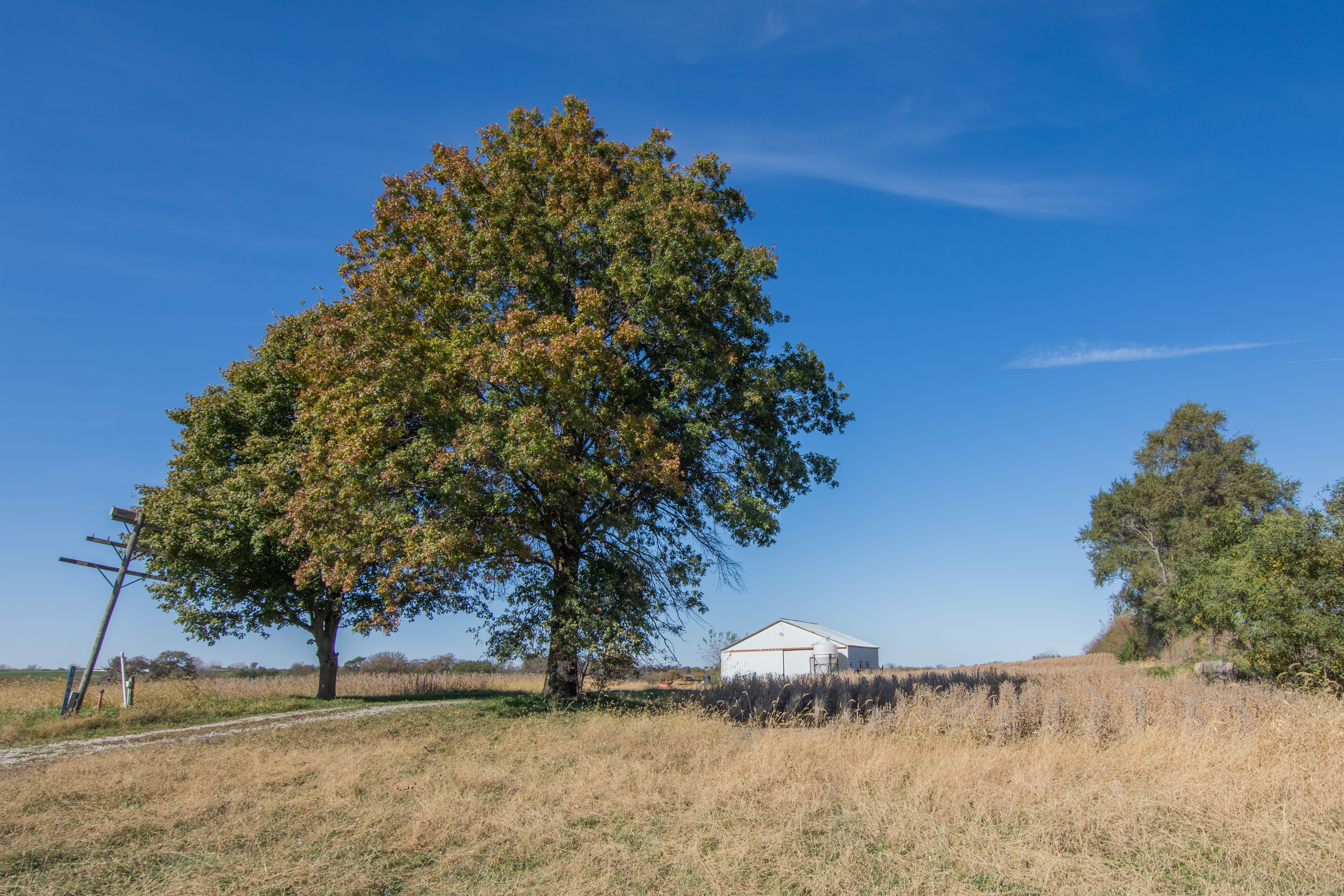 All that remains at the site of the Noah Odell House near Nodaway, Iowa. An old utility pole with signage (left), a single out building (center), and a root cellar (right). Signage on the pole reads: "STAGE COACH INN 1856 - 57" (10-2016)